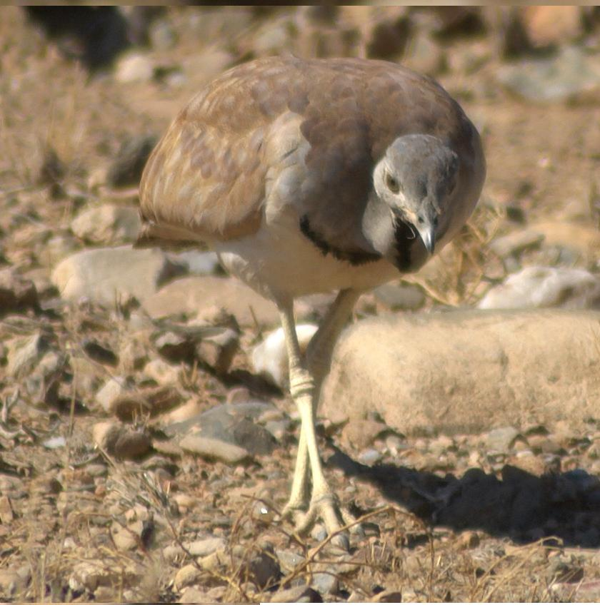 A female Rueppell's Korhaan close to Twyfelfontein, Namibia